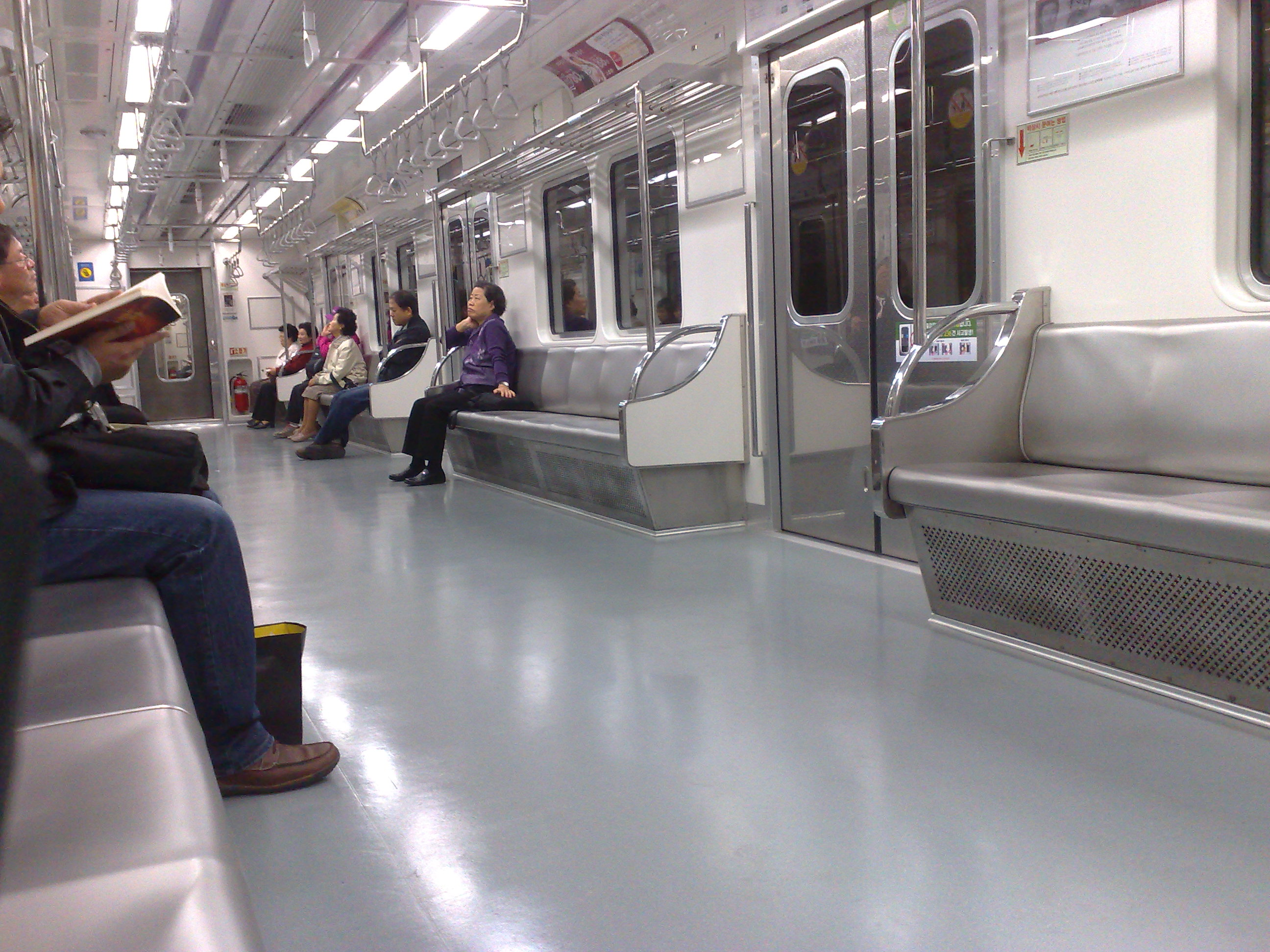 Photo taken on line 5 of the Seoul Metro